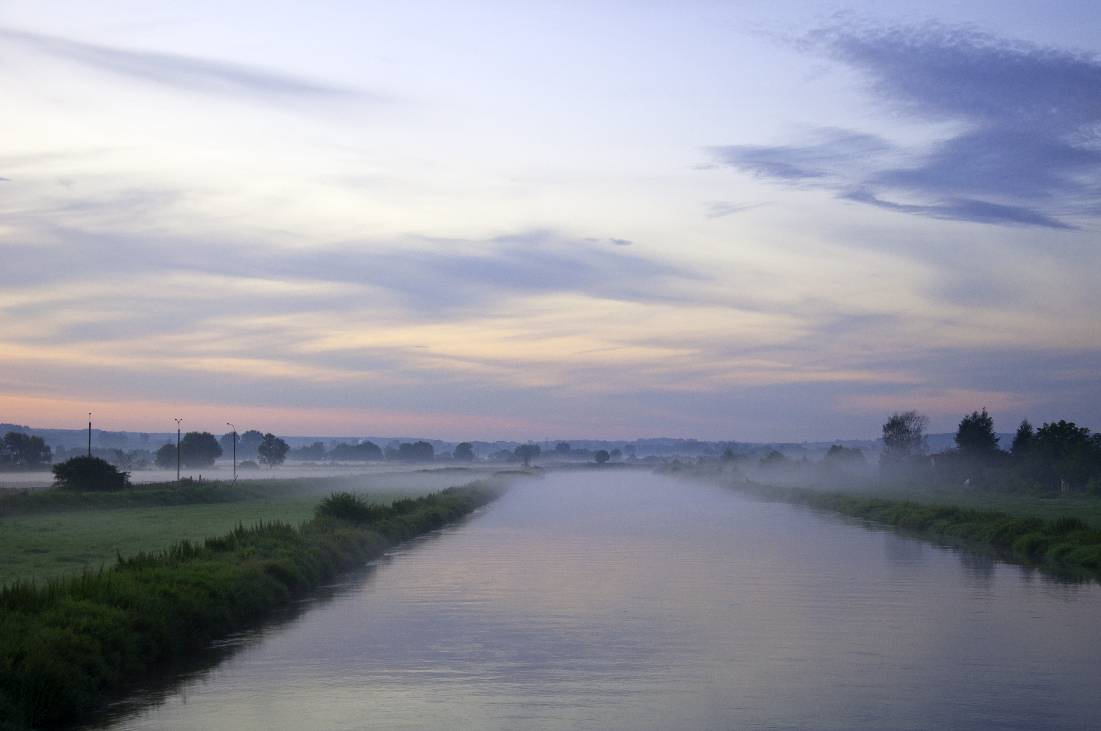 Pińczów - Nida river